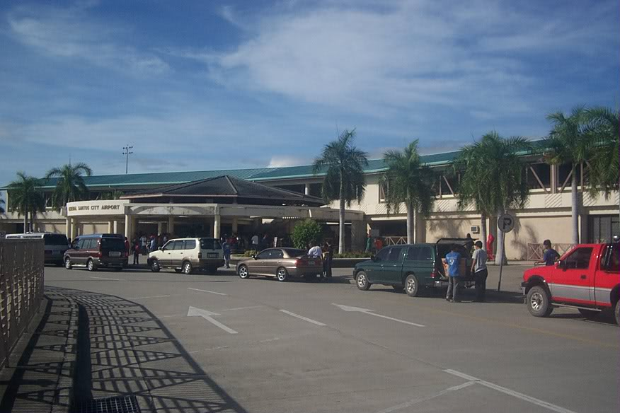 GES facade